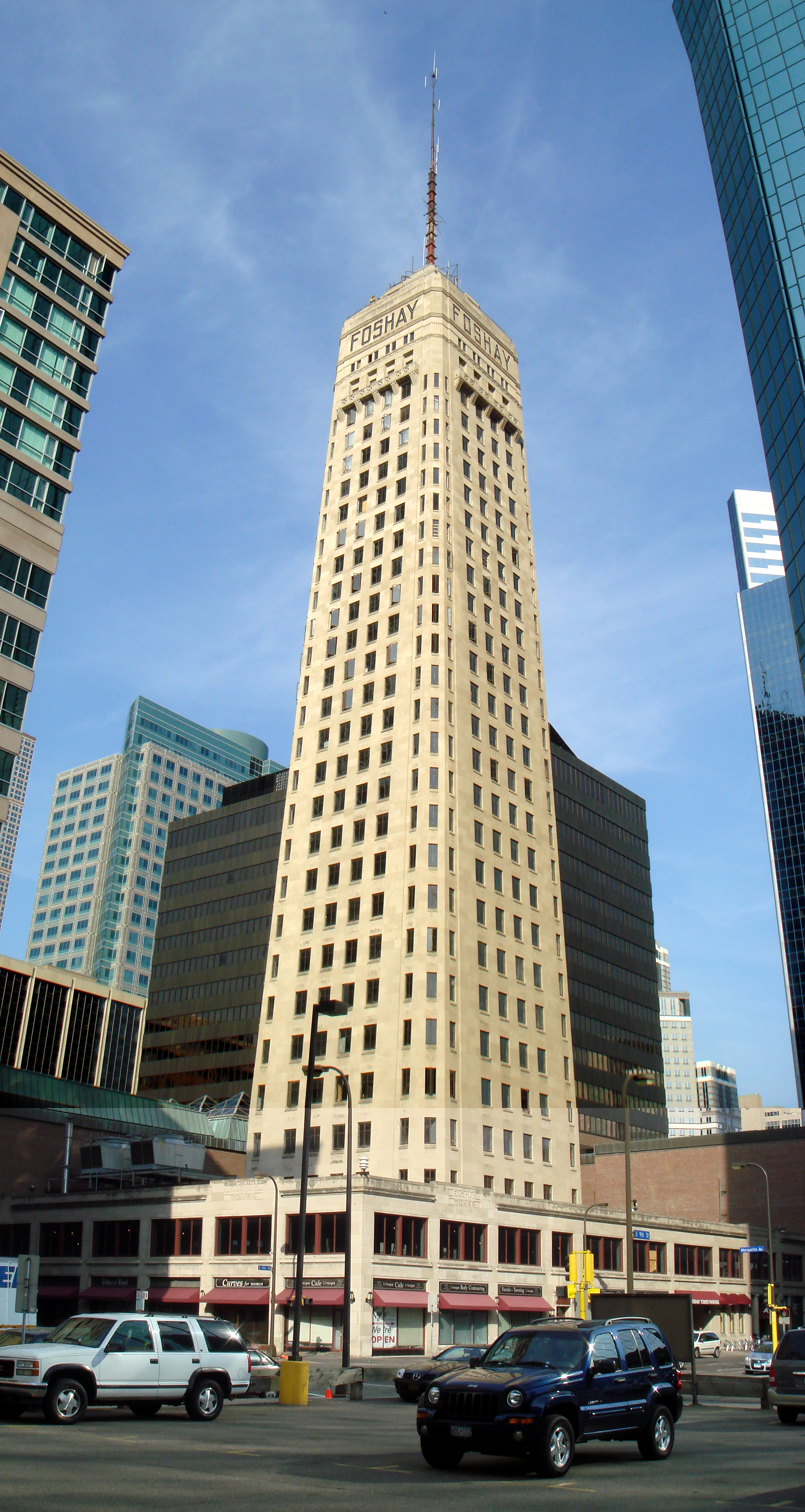 Foshay Tower in Minneapolis, Minnesota (this is actually two photos spliced together in order to capture the full length of the building)